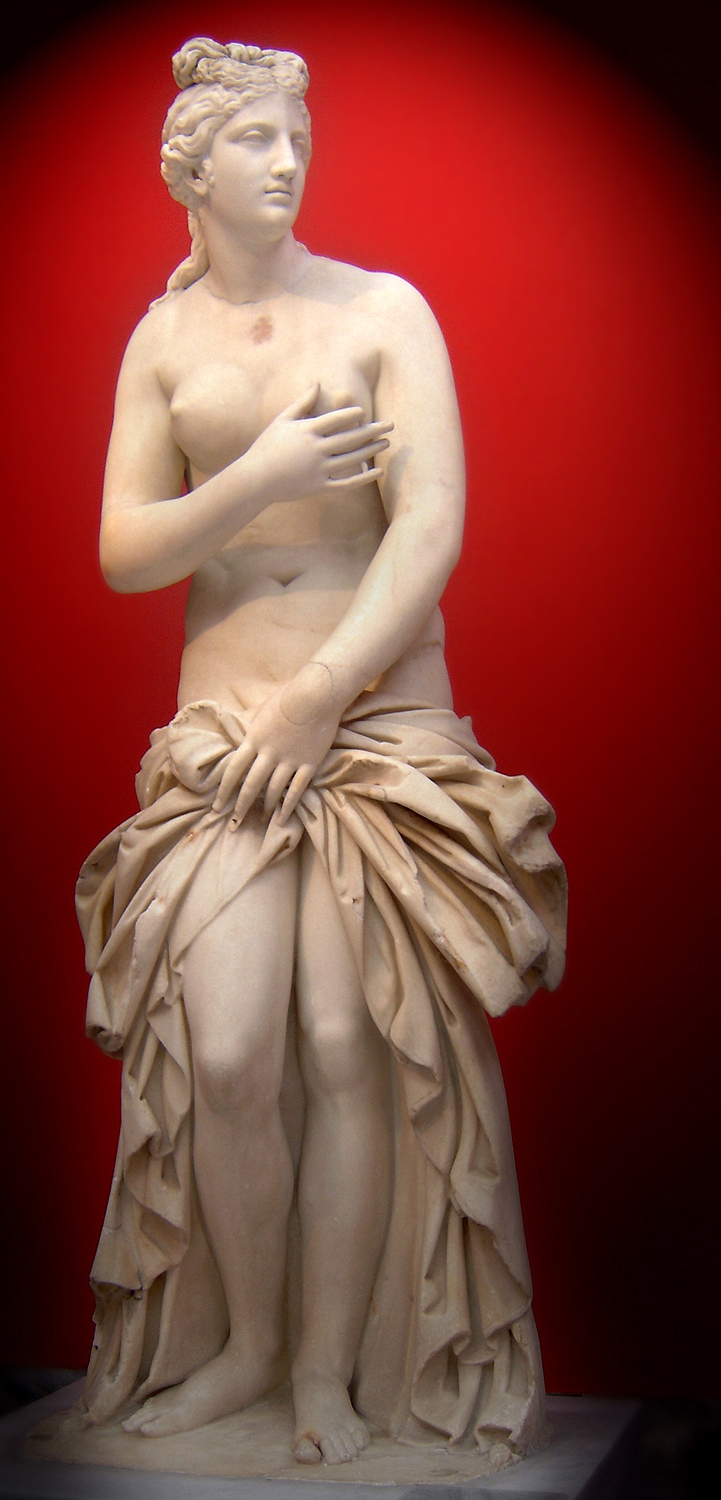 Aphrodite of the Syracuse type. Parian marble, Roman copy of the 2nd century CE after a Greek original of the 4th century BC; neck, head and left arm are restorations by Antonio Canova. Found at Baiae, Southern Italy.